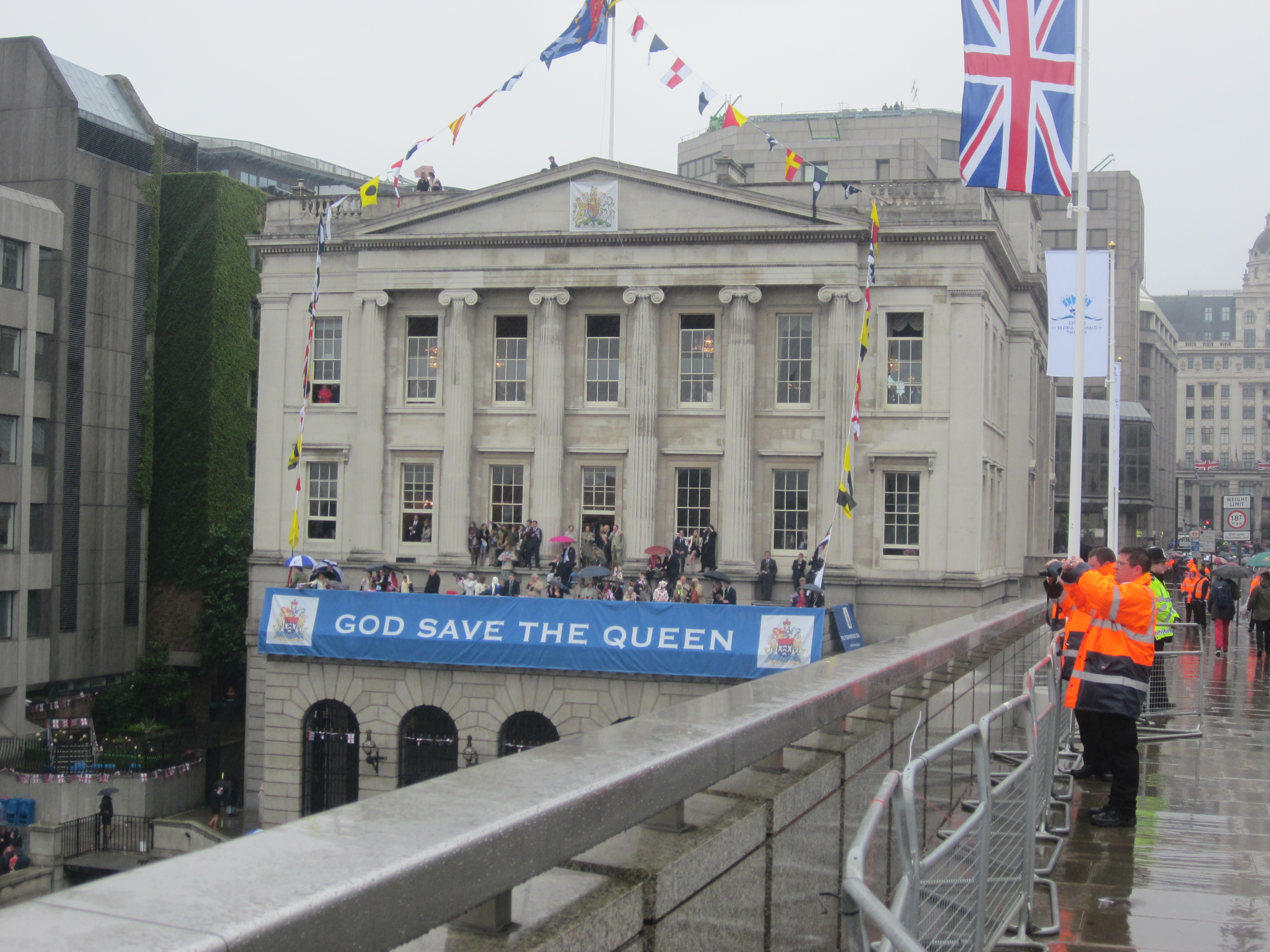 Fishmongers' Hall, London Bridge on the day of the river pageant to celebrate the Diamond Jubilee of HM Queen Elizabeth II